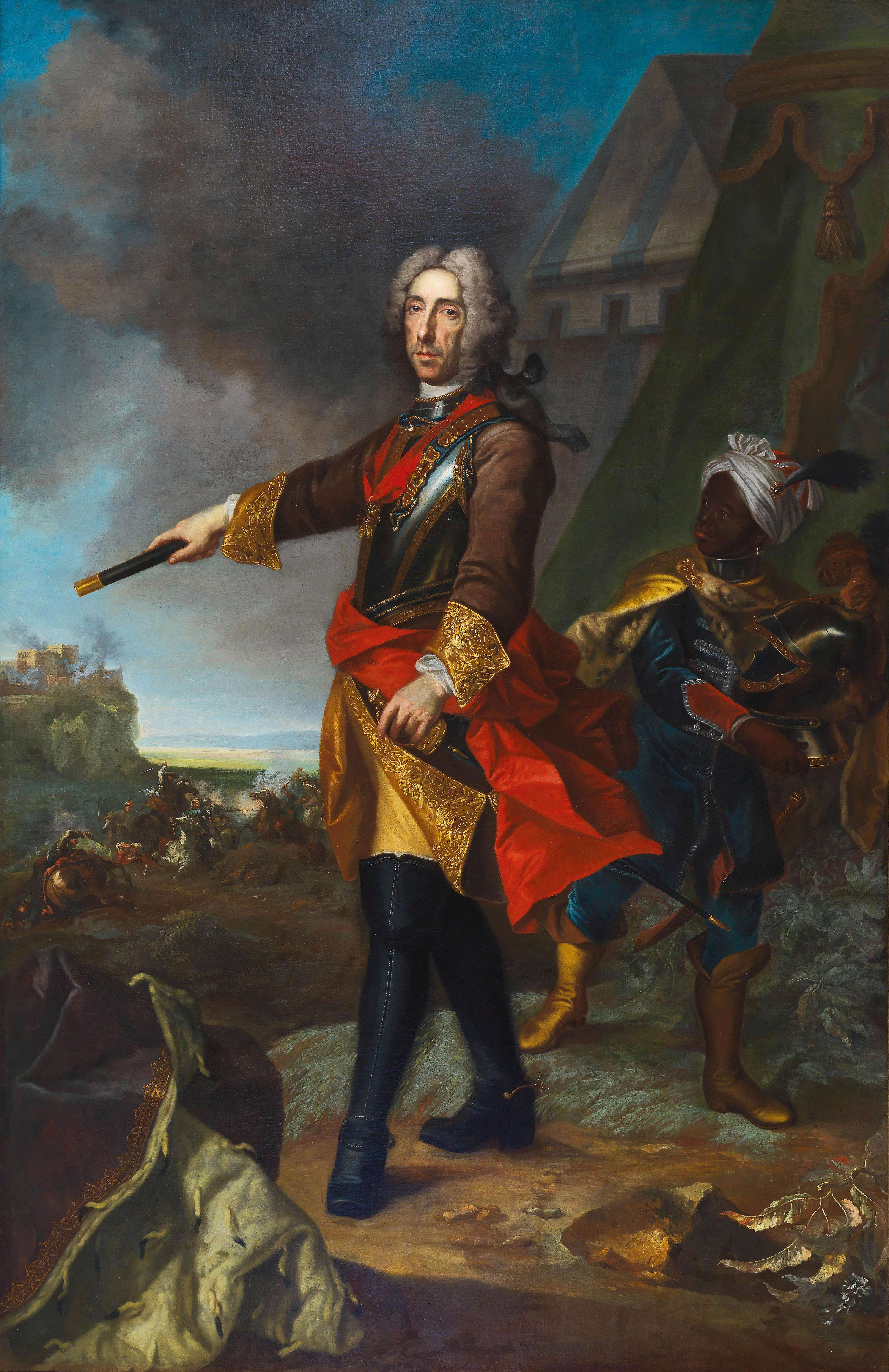 Portrait of Prince Eugene of Savoy (1663-1736), as military commander, in a cuirass and with the insignia of the Order of the Golden Fleece, his helmet presented to him by a young moor